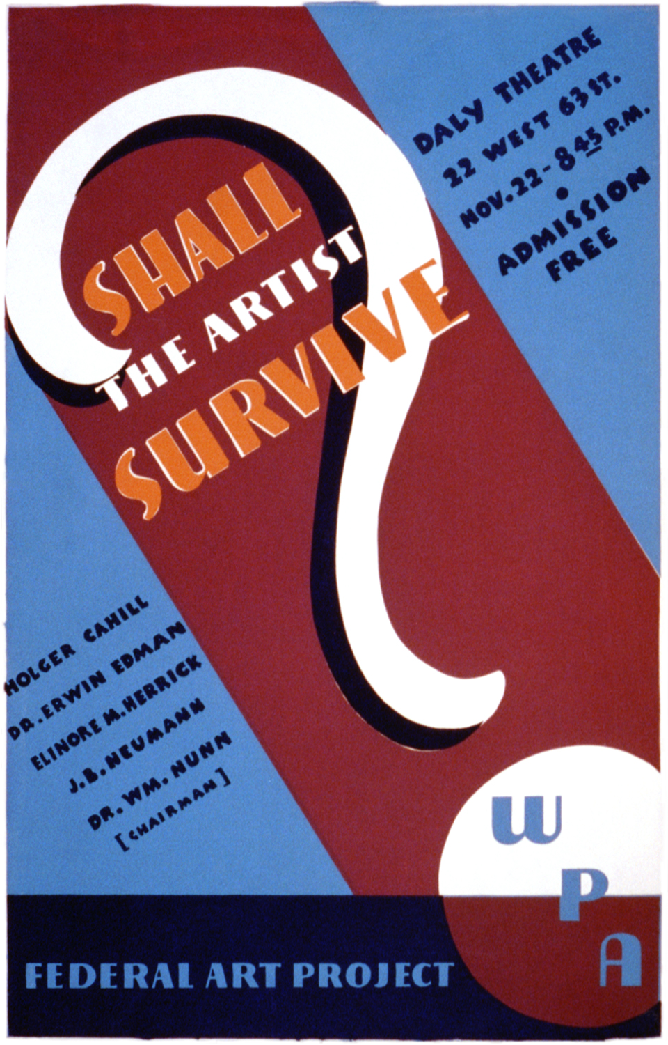 Silkscreen poster for the Federal Art Project forum for artists, "Shall the Artist Survive?" at Daly Theatre, 22 West 63rd Street, New York City.